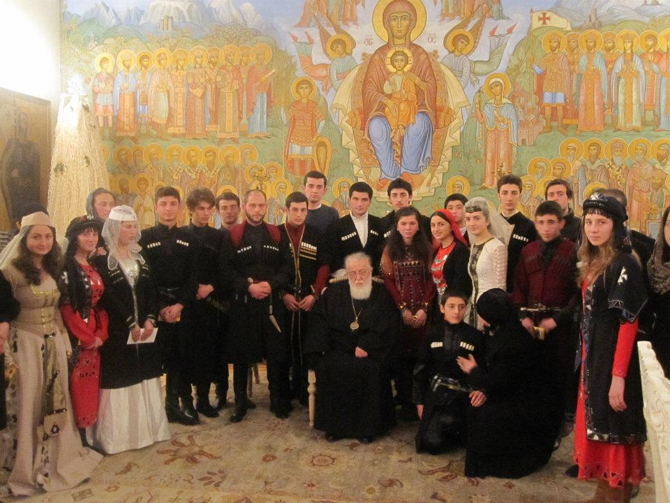 Cotne dadianis darbazi